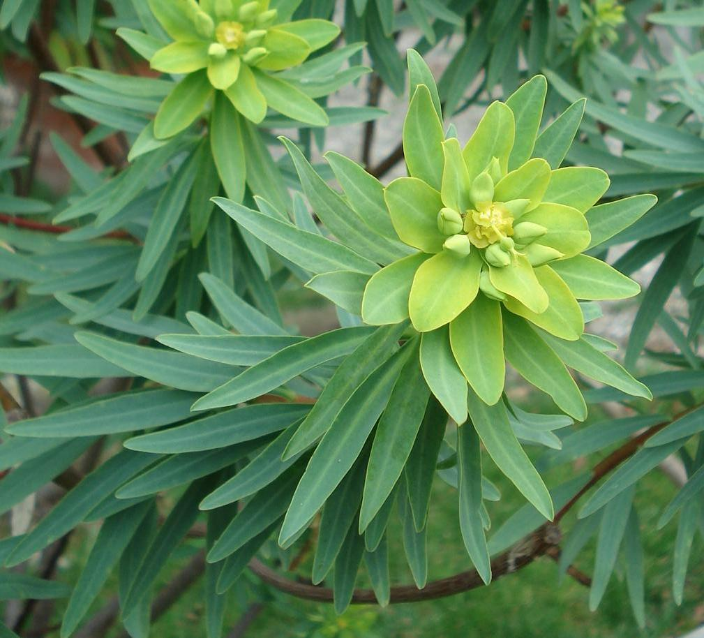 Picture of flower of Euphorbia dendroides, present in Pisa Botanical Garden